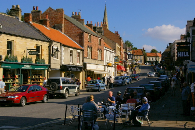 Centre of Pickering